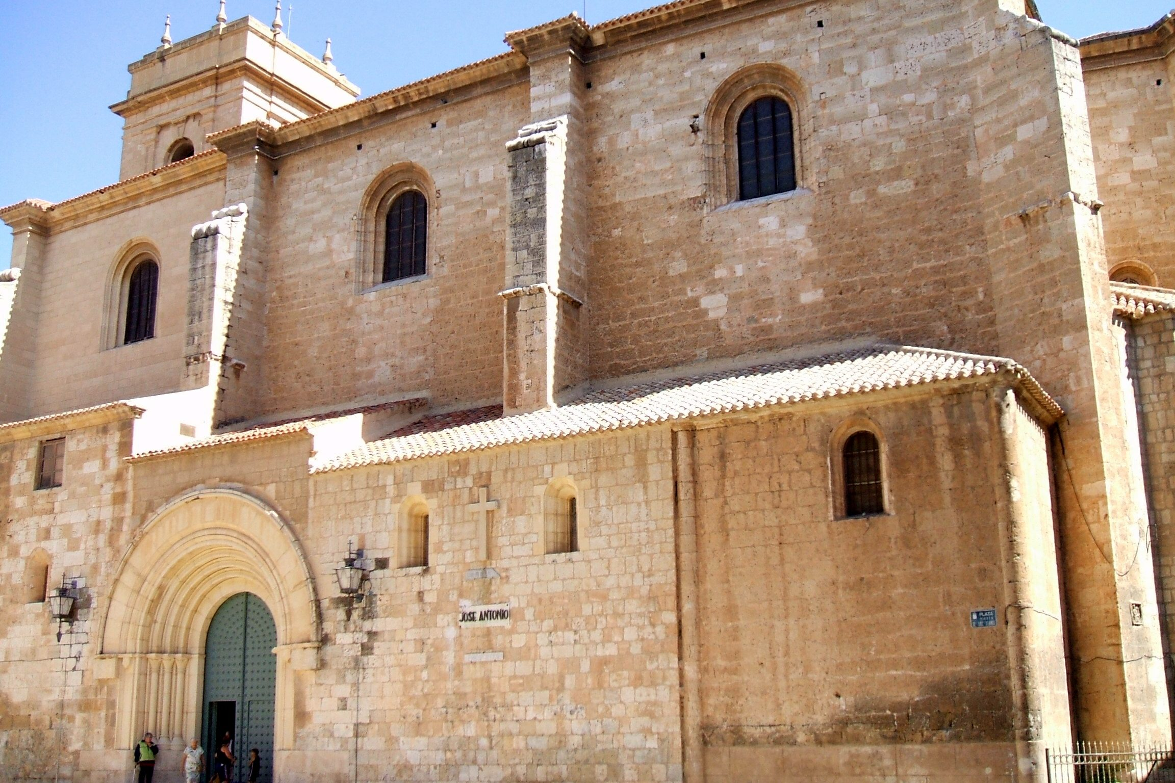 Catedral de San Juan Bautista, Albacete (Castilla-La Mancha, España).